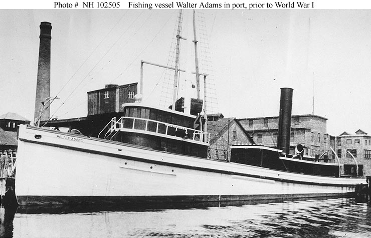 Civilian steam fishing trawler SS Walter Adams prior to her 1918-1919 United States Navy service as patrol vessel USS Walter Adams (SP-400) or "ID-400".